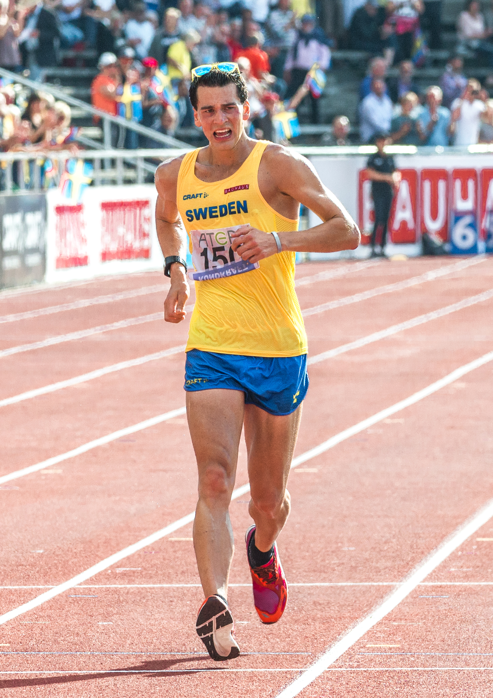 Perseus Karlström during the Finland-Sweden Athletics International at Stockholms Stadion on August 24, 2019.